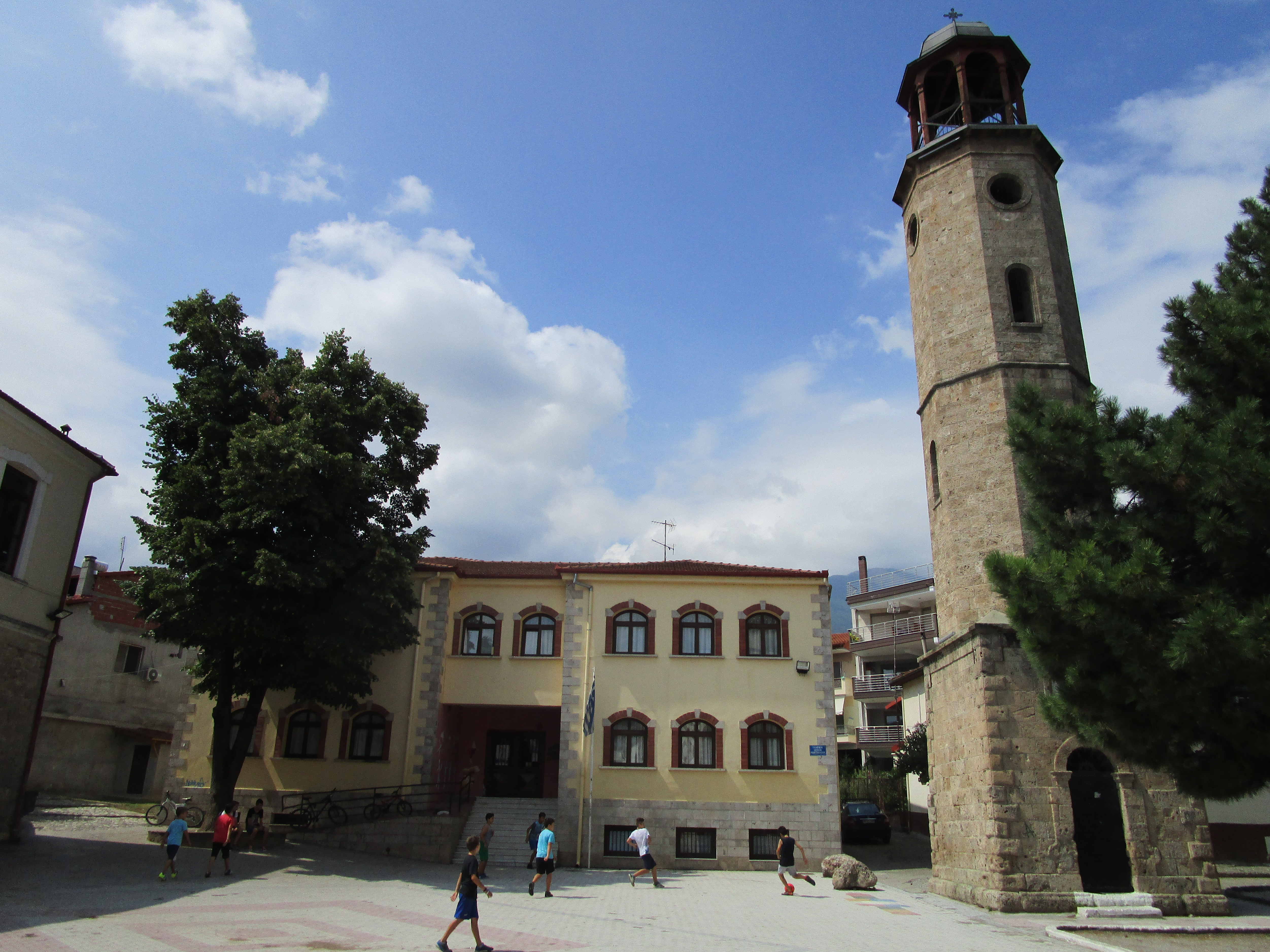 Sefertzeio School, Negush